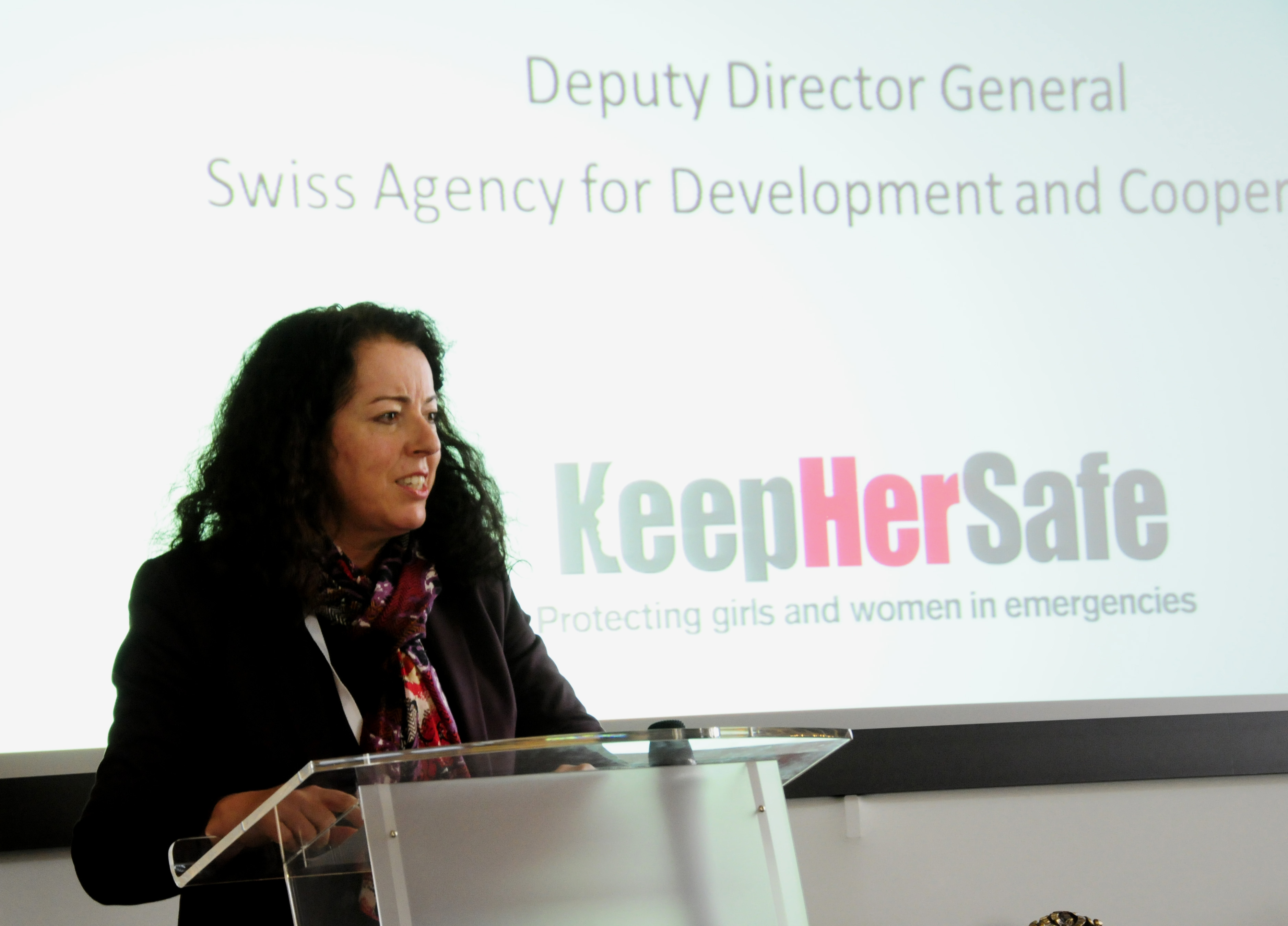 Ambassador Maya Tissafi, Deputy Director-General, Swiss Agency for Development Cooperation in Switzerland addresses the gathering. Leading humanitarian agencies met in the UK today to endorse a global commitment that will prioritise the protection of girls and women from violence and sexual exploitation in emergency situations. International Development Secretary Justine Greening and Sweden’s International Development Minister Hillevi Engström co-chaired a high-level event in London for governments, UN heads, international NGOs and civil society organisations to agree a fundamental new approach to protecting girls and women in emergency situations, both man-made and natural disasters. Read the news story